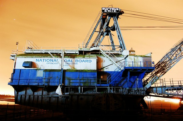 Bucyrus Erie This walking drag line excavator was built in 1948 by the Bucyrus Erie Co, South Milwaukee, Wisconsin. It worked in the U.S.A for 4yrs before it was dismantled and shipped to England. It’s been dismantled 4 times in its history and worked in Pontypridd, South Wales and Cannock, Staffordshire. It finally moved to the St Aidans opencast mine near Leeds in 1972 where it worked until 1983. It is one of only four remaining drag line excavators still in existence. It weighs 1200 tons and has a bucket capacity of 20 cubic yards. To see more information and pictures see here